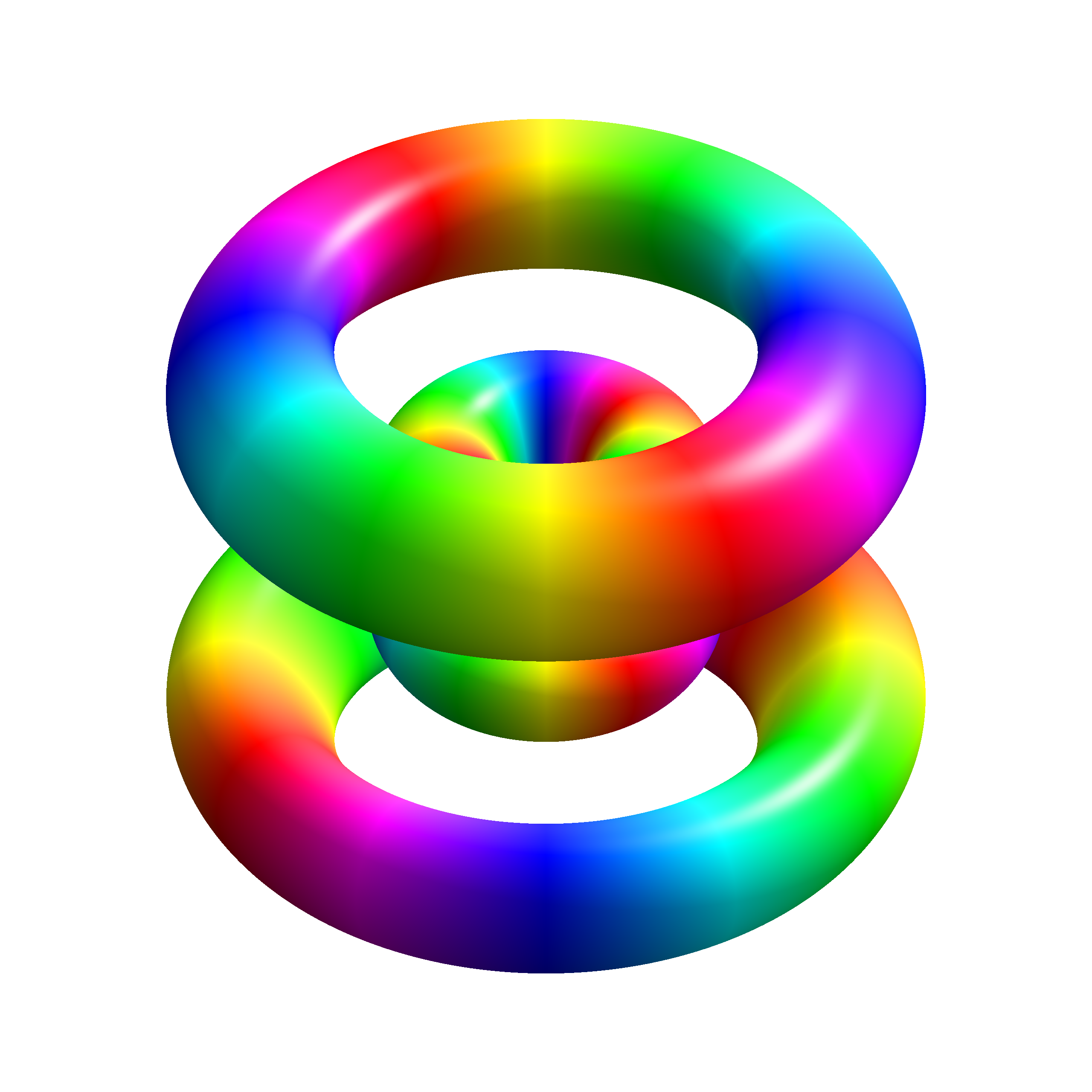 Calculated 5f-2 orbital of an electron's eigenstate in the Coulomb-field of a hydrogen nucleus. An eigenstate is a state which keeps it's shape except for a complex phase when the Hamilton operator is applied, thus being invariant in time while obeying the Schrödinger equation. The wavefunction is: ψ 5 , 3 , − 2 ( r , ϑ , φ ) = ( 2 5 a 0 ) 3 1 10 ⋅ 8 ! ⋅ e − r / ( 5 a 0 ) ⋅ ( 2 r 5 a 0 ) 3 ⋅ L 1 7 ( 2 r / ( 5 a 0 ) ) ⋅ Y 3 − 2 ( ϑ , φ ) {\displaystyle \psi _{5,3,-2}(r,\vartheta ,\varphi )={\sqrt \left({\frac {2}{5\,a_{0 }\right)}^{3}{\frac {1}{10\cdot 8! \cdot e^{\textstyle -r/(5\,a_{0})}\cdot \left({\frac {2\,r}{5\,a_{0 }\right)^{3}\cdot L_{1}^{7}(2\,r/(5\,a_{0}))\cdot Y_{3}^{-2}(\vartheta ,\varphi )} The state is an eigenstate of H, L² and Lz, which constitute a complete set of commuting observables. The quantum numbers mean that the following quantities have a sharp certain value: n = 5: Energy: E = − 1 R y / n 2 = − 13.6 e V / 25 {\displaystyle E=-1\,\mathrm {Ry} /n^{2}=-13.6\,\mathrm {eV} /25} l = 3: Angular momentum: | L | = l ( l + 1 ) ℏ = 2 3 ℏ {\displaystyle |L|={\sqrt {l\,(l+1) \,\hbar =2{\sqrt {3 \,\hbar } m = -2: Angular momentum in z-direction: L z = m ℏ = − 2 ℏ {\displaystyle L_{z}=m\,\hbar =-2\,\hbar } Since l=3, this is called a f-orbital. The orbital is aligned around the z-axis, but remains an eigenfunction of H and L² if rotated to any direction. The depicted rigid body is where the probability density exceeds a certain value. The color shows the complex phase of the wavefunction, where blue means real positive, red means imaginary positive, yellow means real negative and green means imaginary negative. The image is raytraced using modified Phong lighting. The fine structure is neglected.